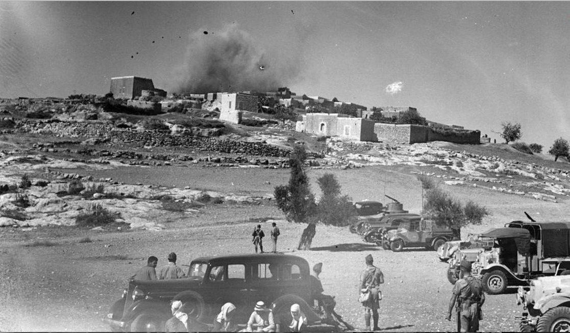 alestinian village of Mi'ar being blown up by the British in 1938. It was completely destroyed, homes dynamited.